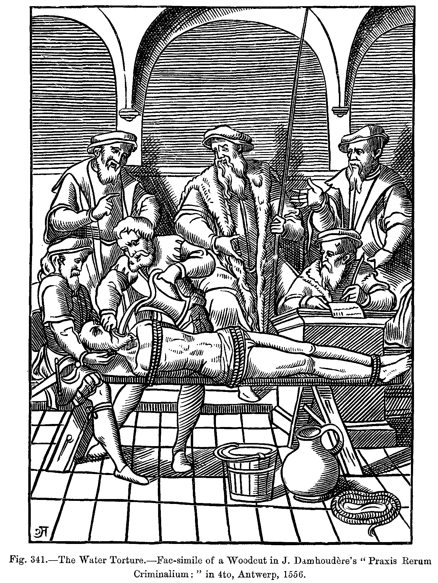 Water torture